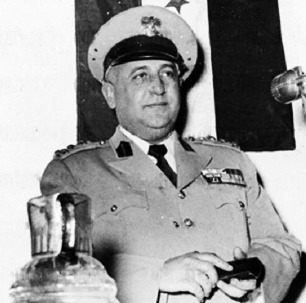 President Fawzi Selu making a speech